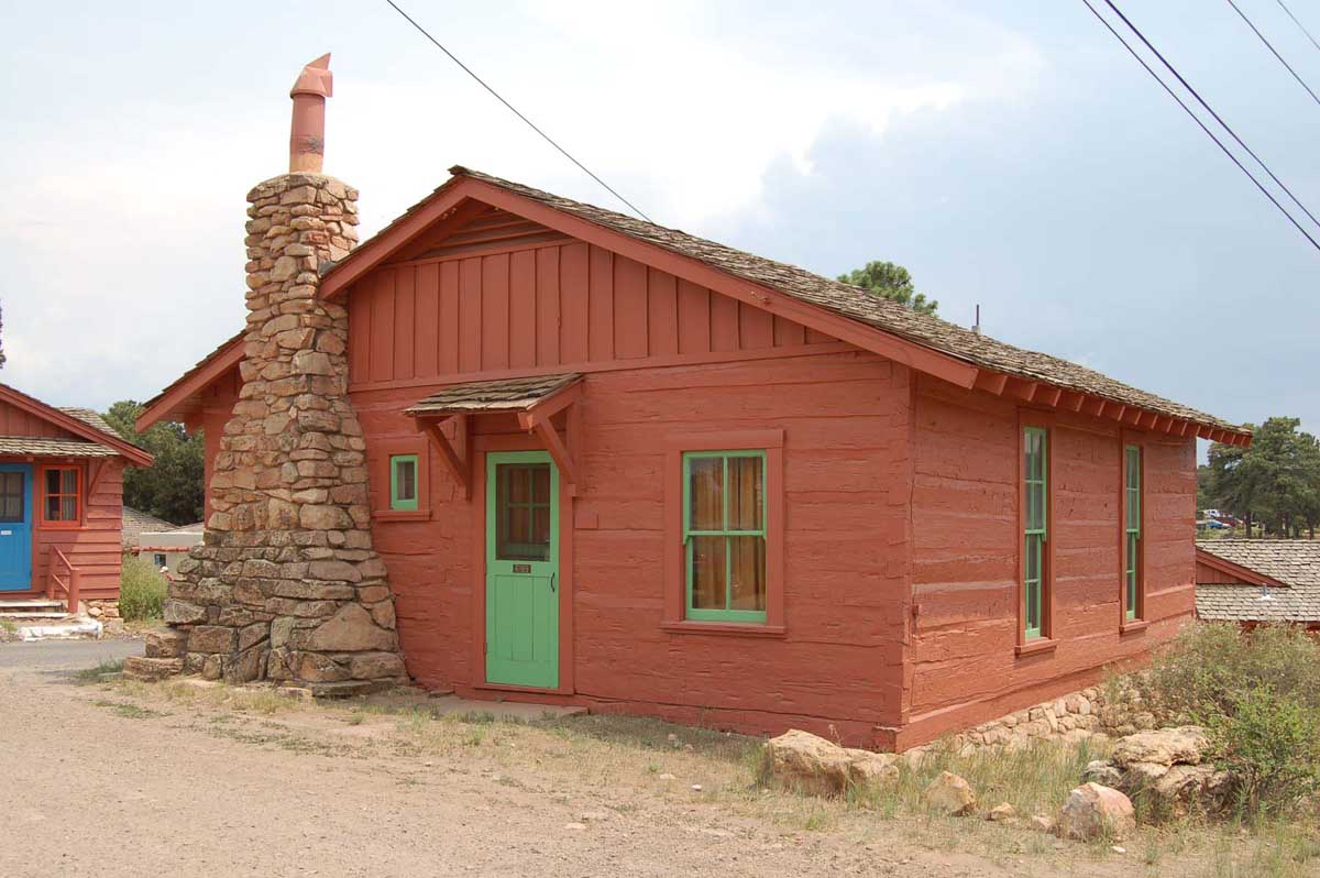 Red Horse Cabin at the Bright Angel Lodge — in Grand Canyon Village, South Rim of the Grand Canyon, Grand Canyon National Park, Arizona. The historic cabin, predating the lodge, is within the Grand Canyon Village Historic District, on the National Register of Historic Places in Grand Canyon National Park.